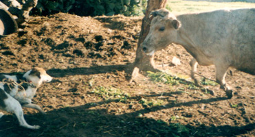 Rabies in cattle: positive "dog test": the cow attacks the dog